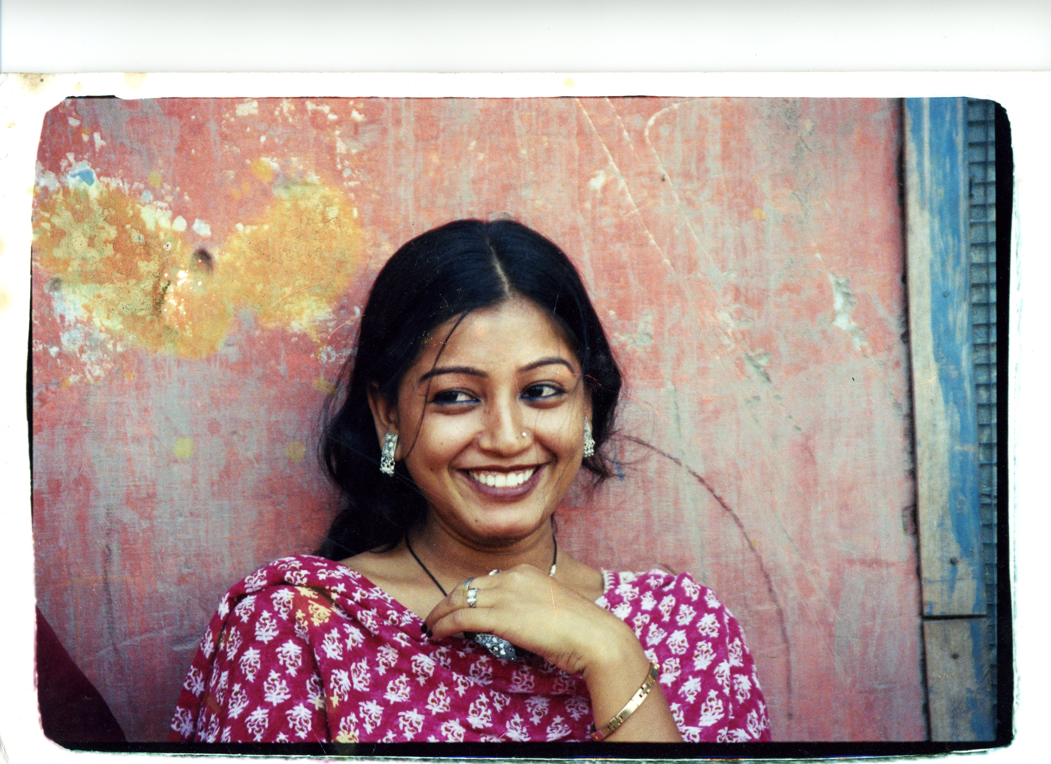 Indian woman smiles in Delhi train station